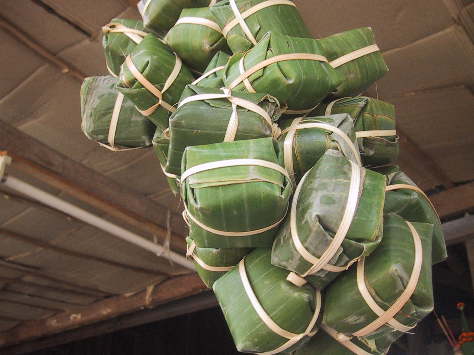 Small individual packs of fermented pork wrapped in banana leaves in Laos